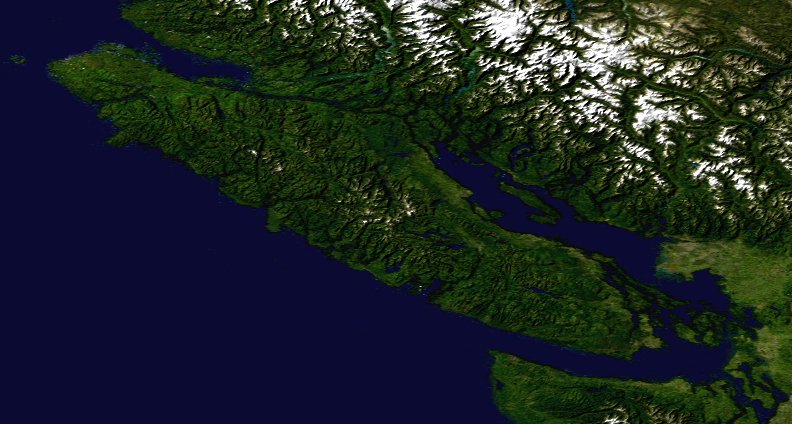 Satellite composition of the whole Earth's surface.